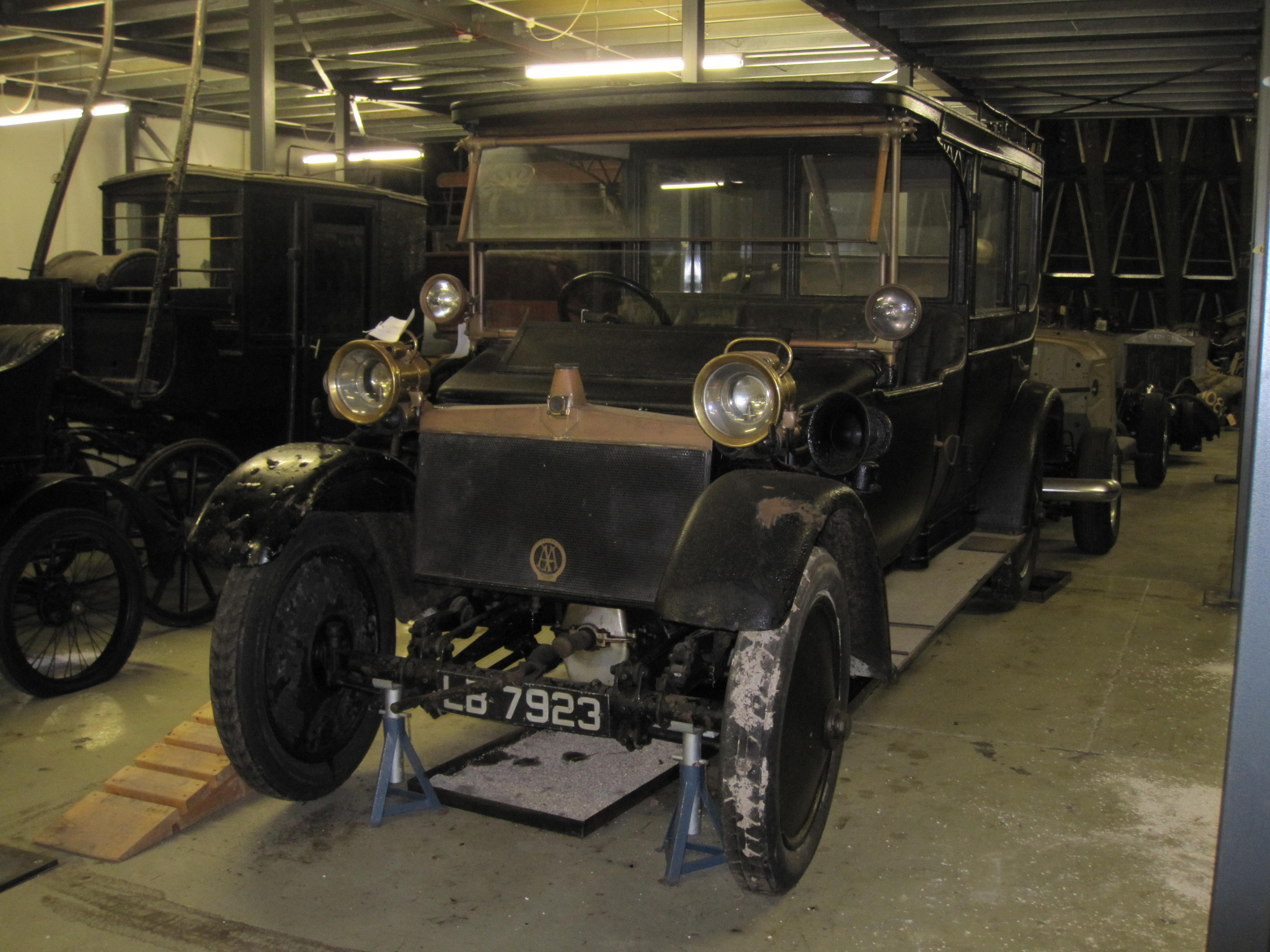 1913 Lanchester 38 hp limousine 6-cylinder, 101x101 = 4855cc Science Museum Store, Wroughton Wiltshire acquired in 1935